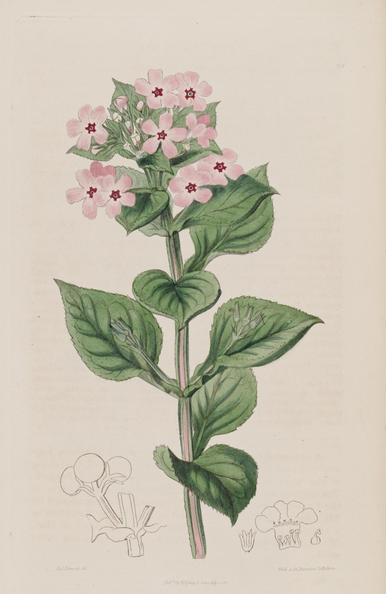 Illustration of Teedia lucida